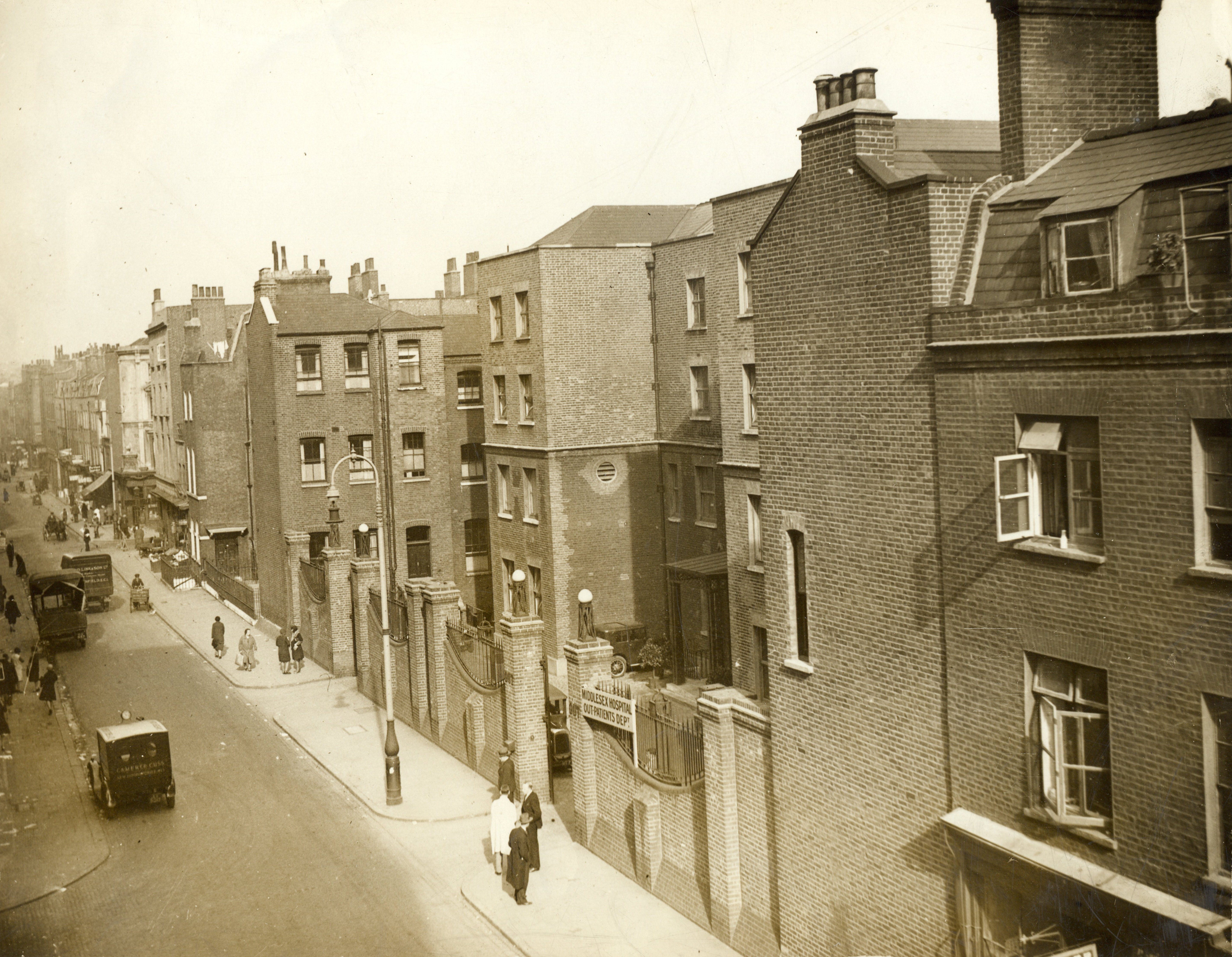 Cleveland Street vista. The street marks the boundary of Borough of St Marylebone in London